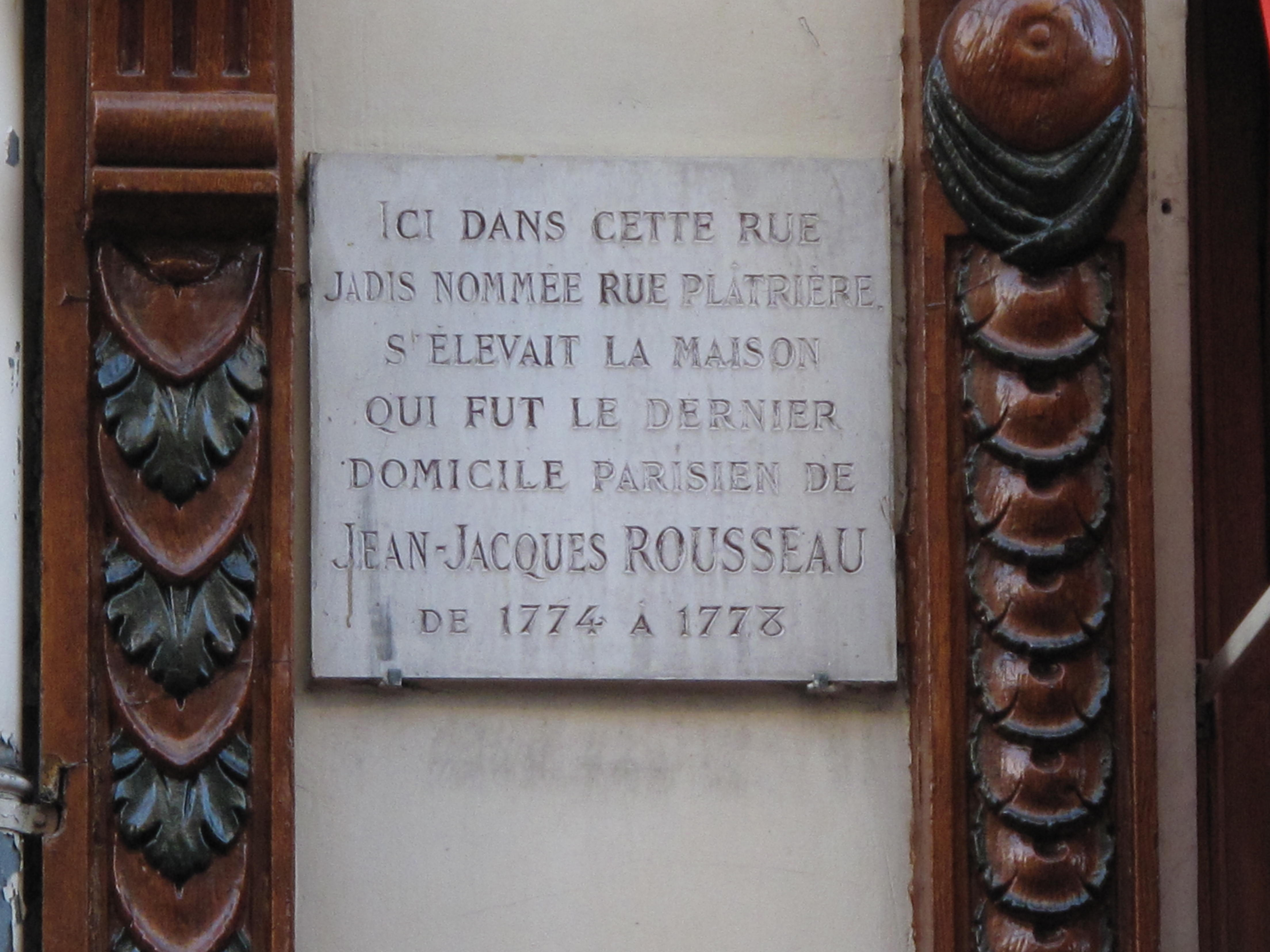 Plaque at the place of the house (now destroyed) where the french philosoph Jean-Jacques Rousseau lived during his last years in Paris : 54 rue Jean-Jacques Rousseau, Paris 2e arr.